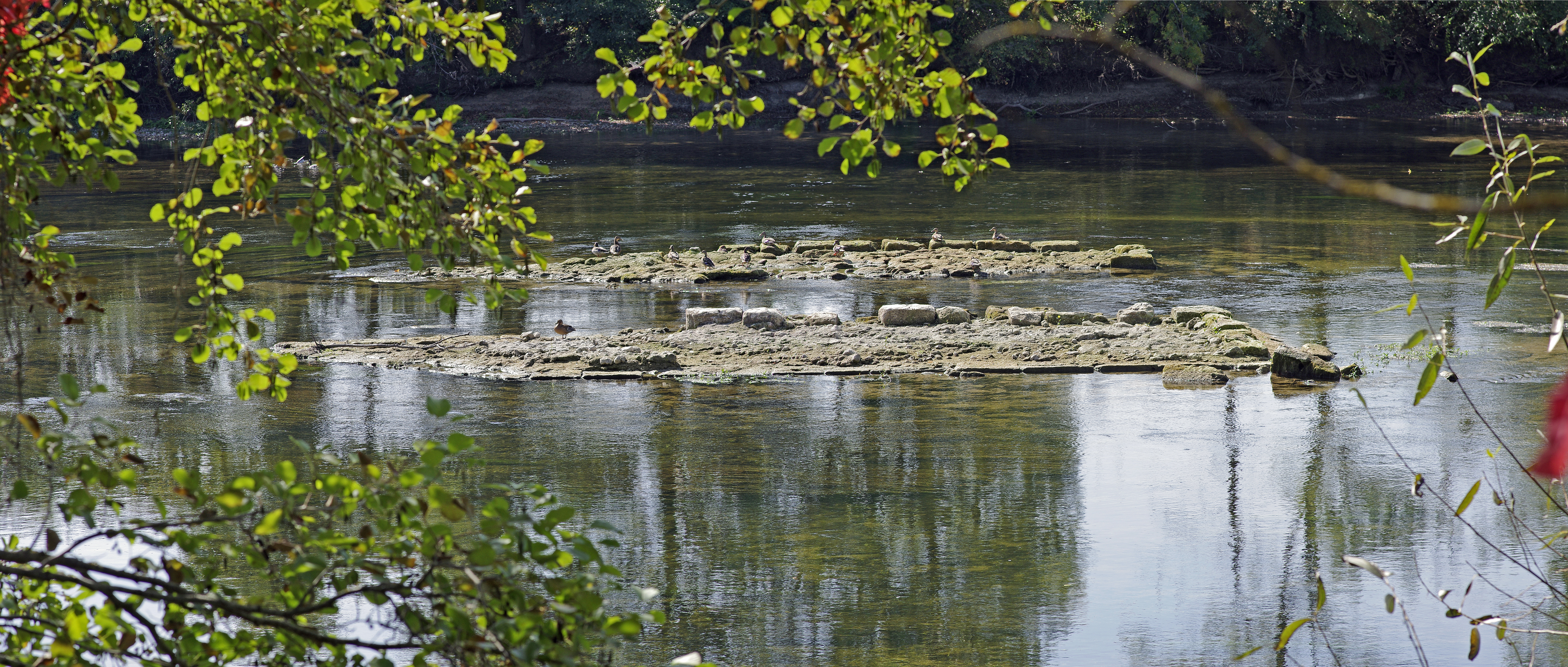 Thésée-la-Romaine (Loir-et-Cher) Vestiges d'un probable pont médiéval voir romain. Elisabeth Latrémolière suggère que, pour la période gallo romaine,"le passage de la rivière pouvait se faire à gué en aval du pont actuel édifié en 1905". (Supplément à la Revue archéologique du centre de la France / Année 1999 / Volume 17 / Numéro 1 / pp. 179-186) Il semble bien qu'un pont ait existé, en témoigne les vestiges de deux piles de facture médiévale voir romaine. L'absence de vestiges apparents en dehors des piles semble militer pour un pont mixte : piles en pierres et tablier en bois.